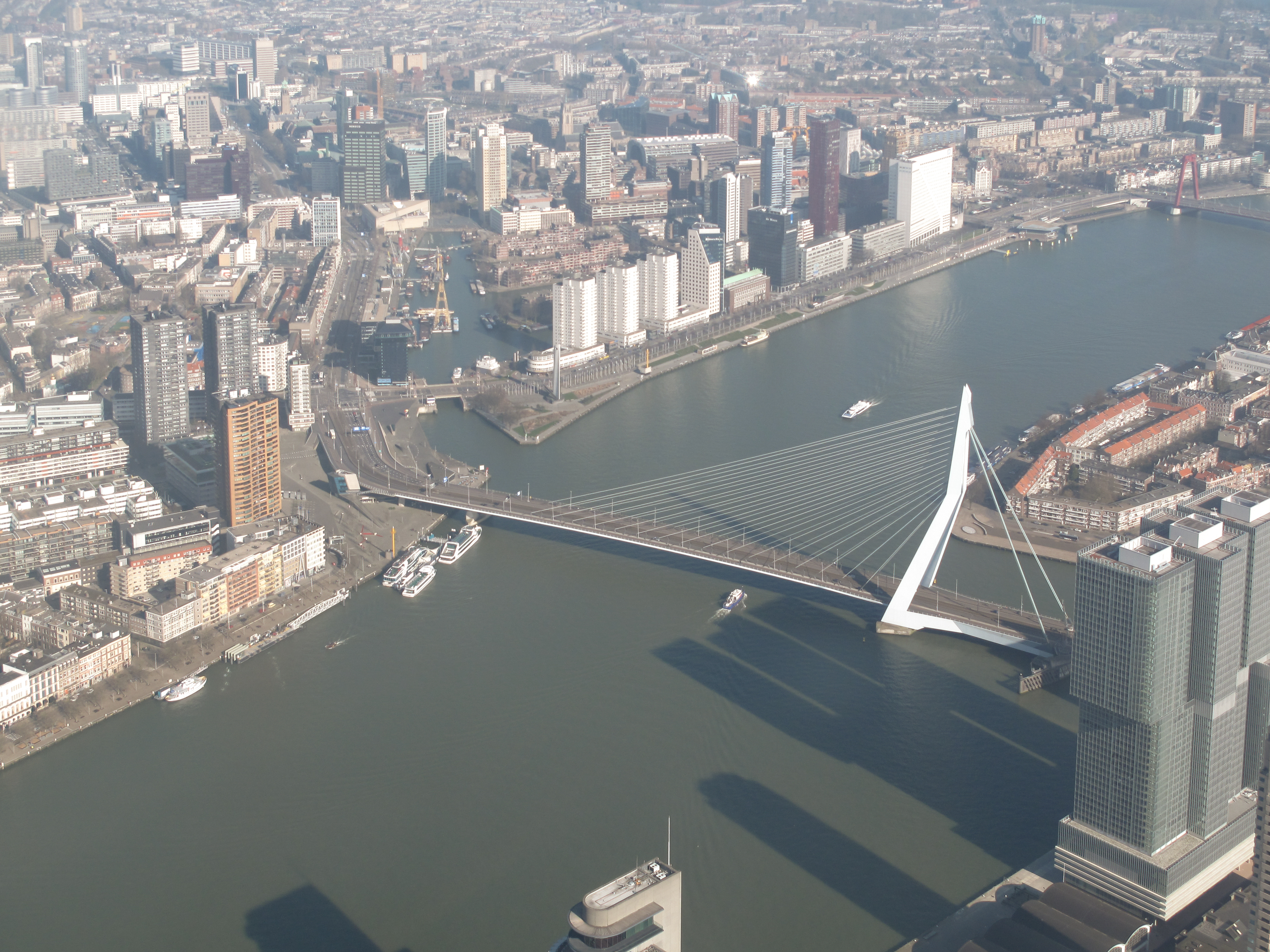 Rotterdam, bridge: de Erasmusbrug